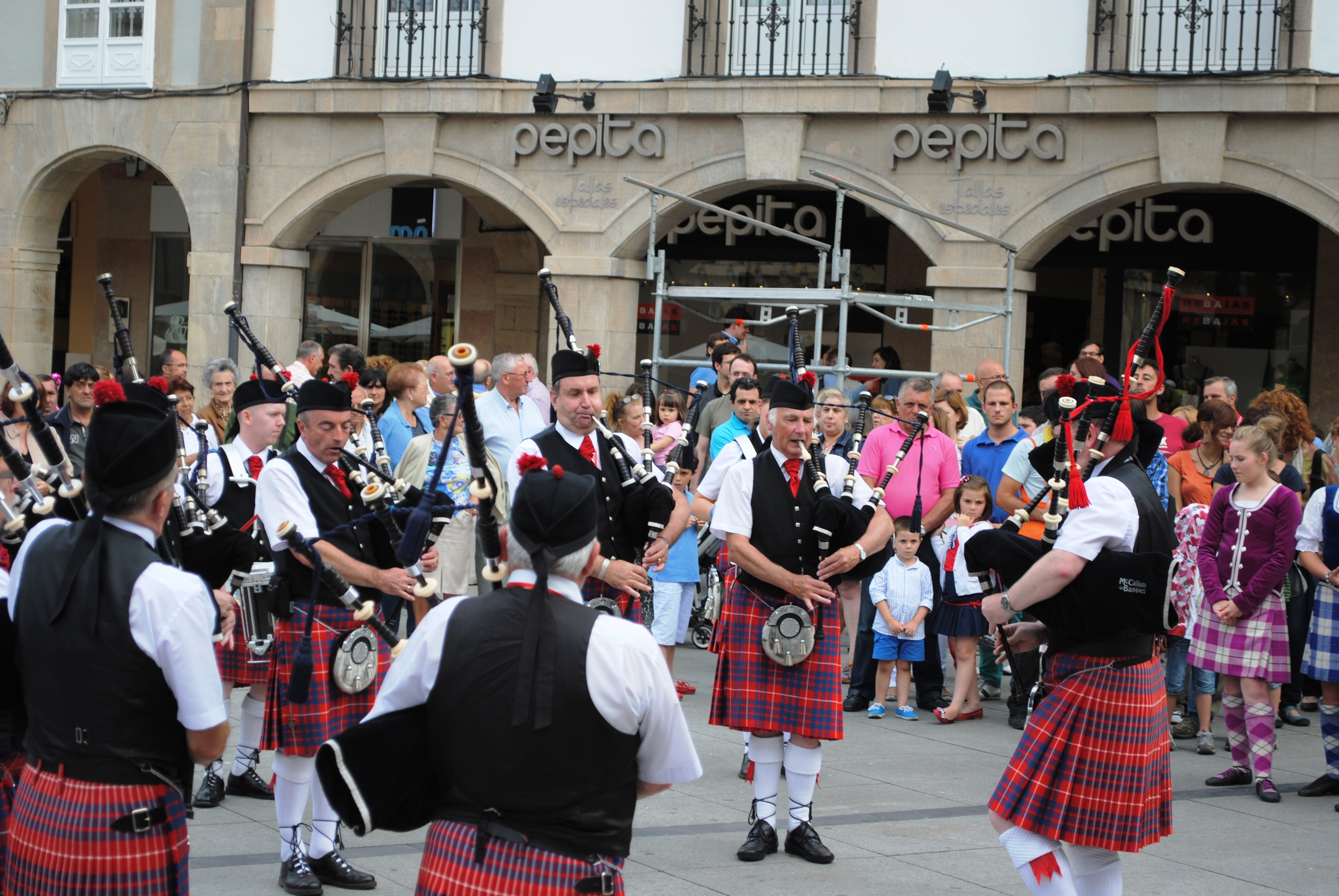 See title.